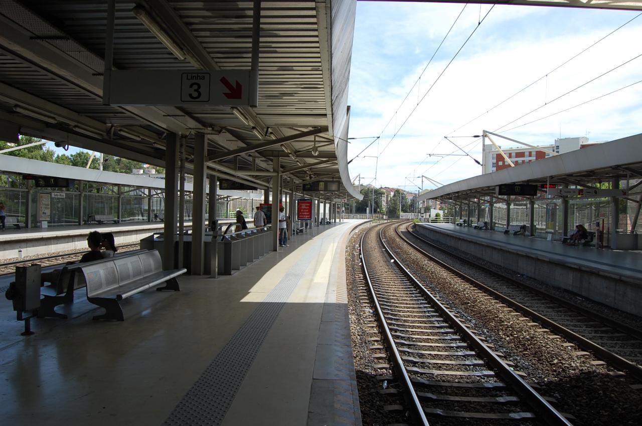 Sete Rios Train Station